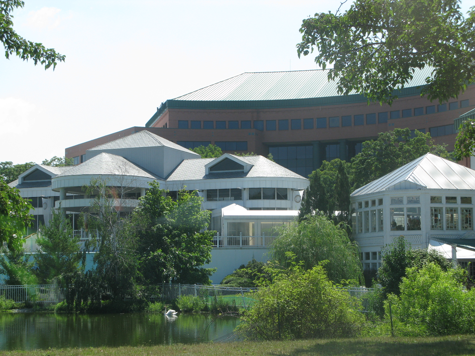 The Mansion (white building), along with the Main Street Piazza office complex behind it, located within the Main Street Complex in Voorhees, New Jersey.